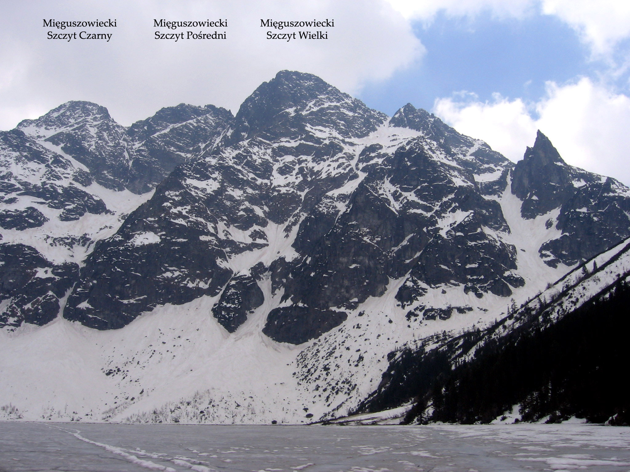 Mieguszewieckie Szczyty, Cubryna i Mnich - view from Morskie Oko, Tatra Mountains, Poland